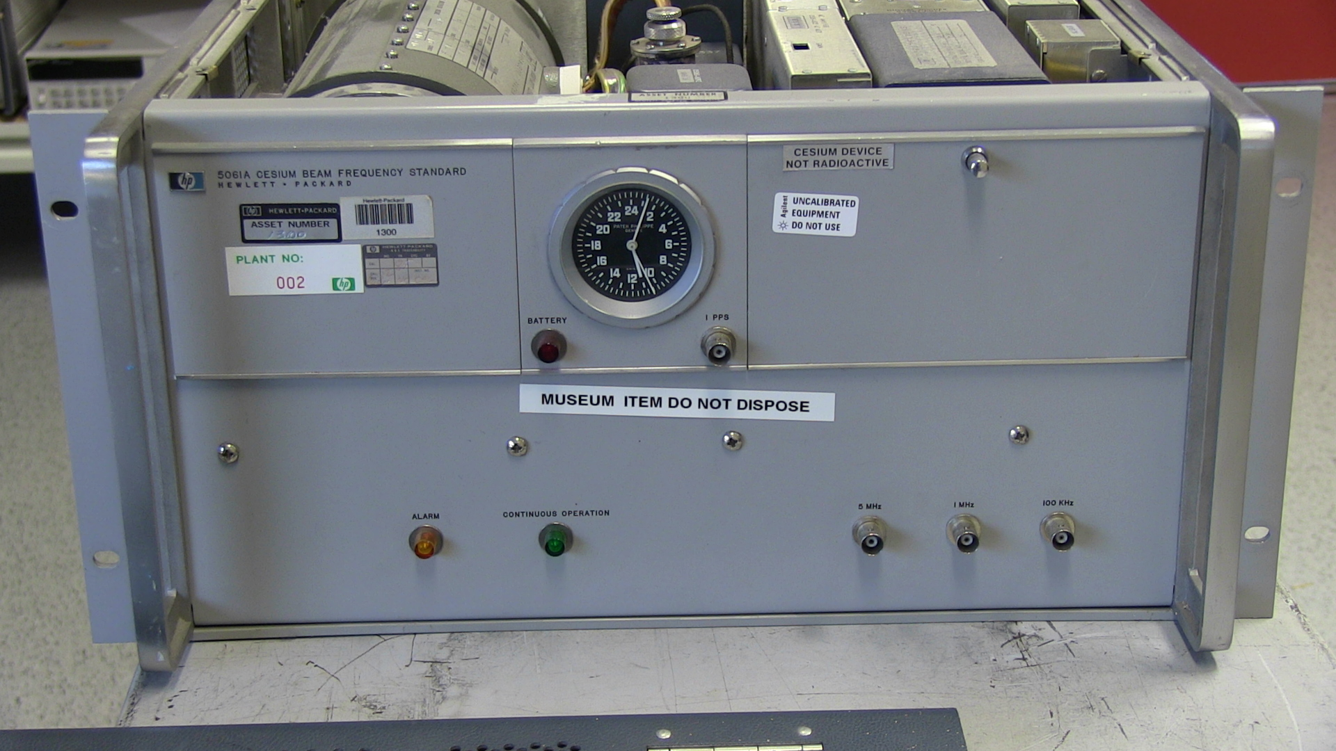 One of the actual cesium beam atomic clock units used in the 1960's "flying clocks" experiment the synchronise time around the world. And later in the Hafele–Keating experiment to prove relativity theory. Currently kept at Agilent (formally Hewlett Packard) Melbourne headquarters.